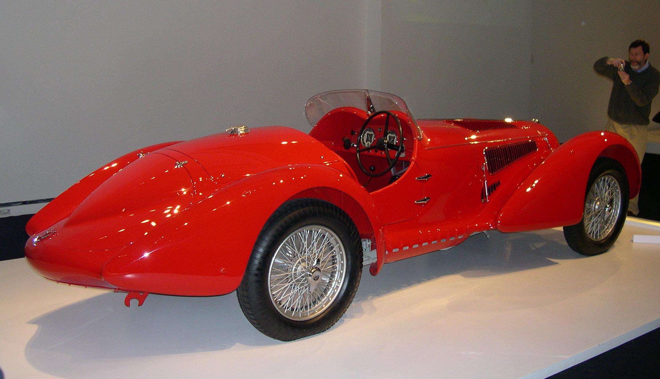 1938 Alfa Romeo 8C 2900 Mille Miglia From the Ralph Lauren collection on display at the Boston Museum of Fine Arts. Photo taken in 2005. Source: Photo by User:Sfoskett